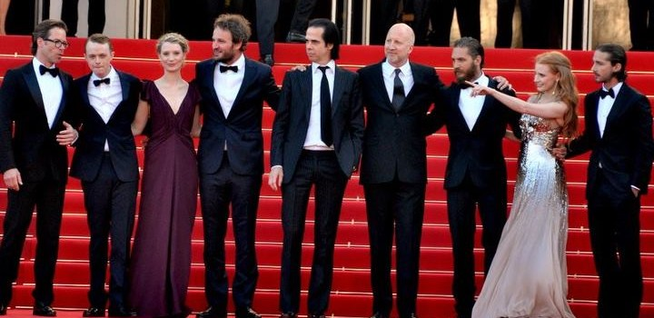 Cast and director of Lawless at the Cannes film festival